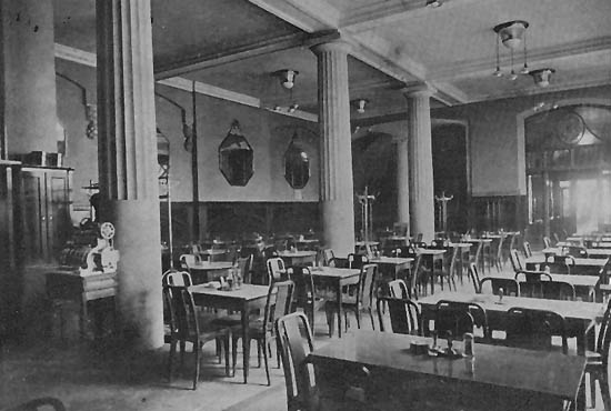 Cafe Hawelka in Krakow